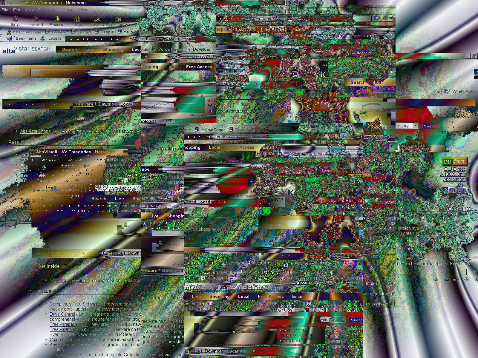 Teo Spiller Computer Graphic (1997), build in neo-esthetic manner